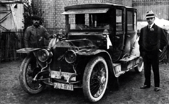 Henri Rougier, his mechanic and the 25Hp Turcat-Mery prepare for the inaugural Monte Carlo rally.